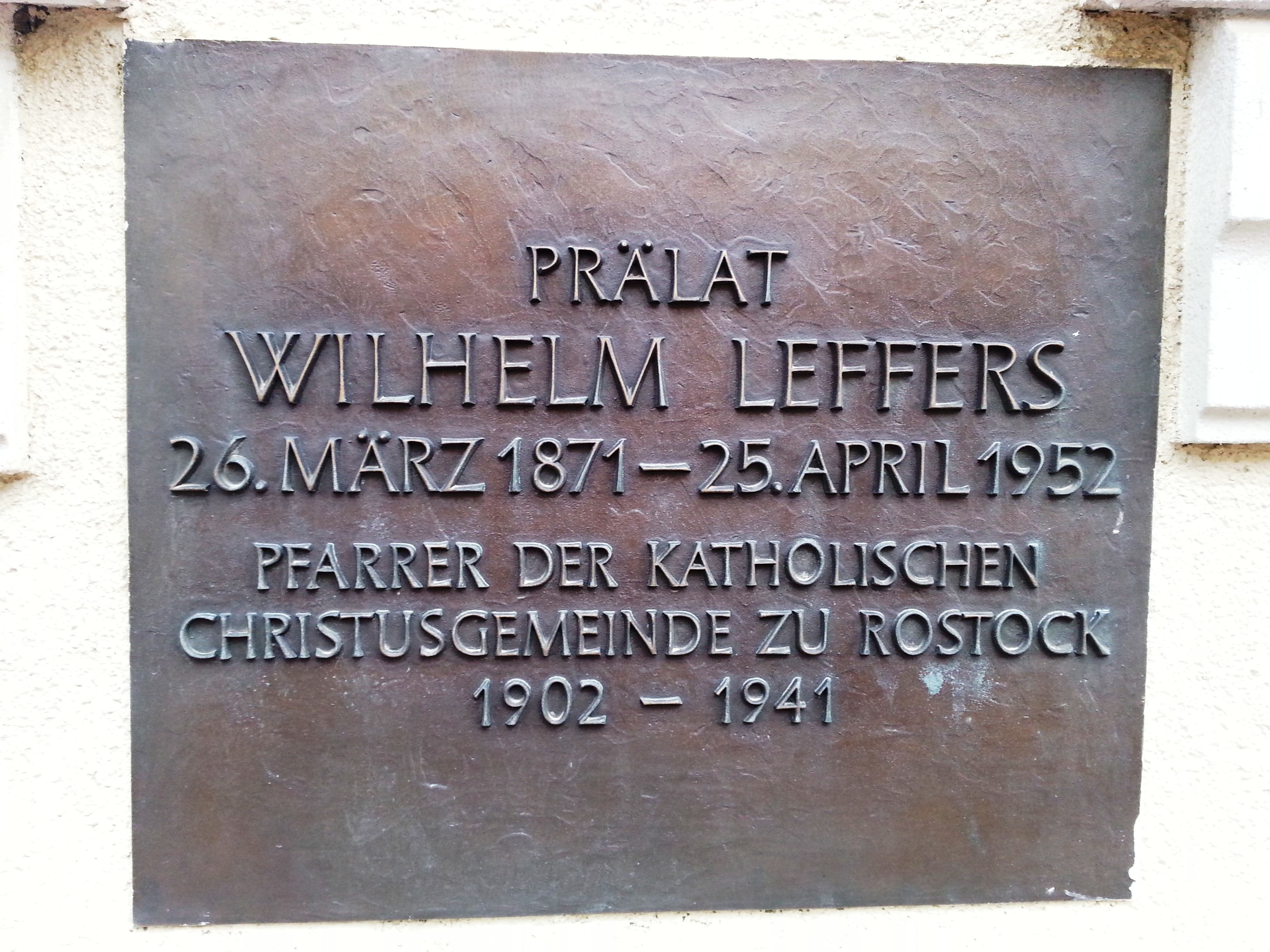 Plaque commemorating Prelate Wilhelm Leffers on the Prälat-Wilhelm-Leffers-Haus on Augustenstraße in the Steintor-Vorstadt, a locality of Rostock, Mecklenburg, Germany